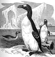 Great auk.